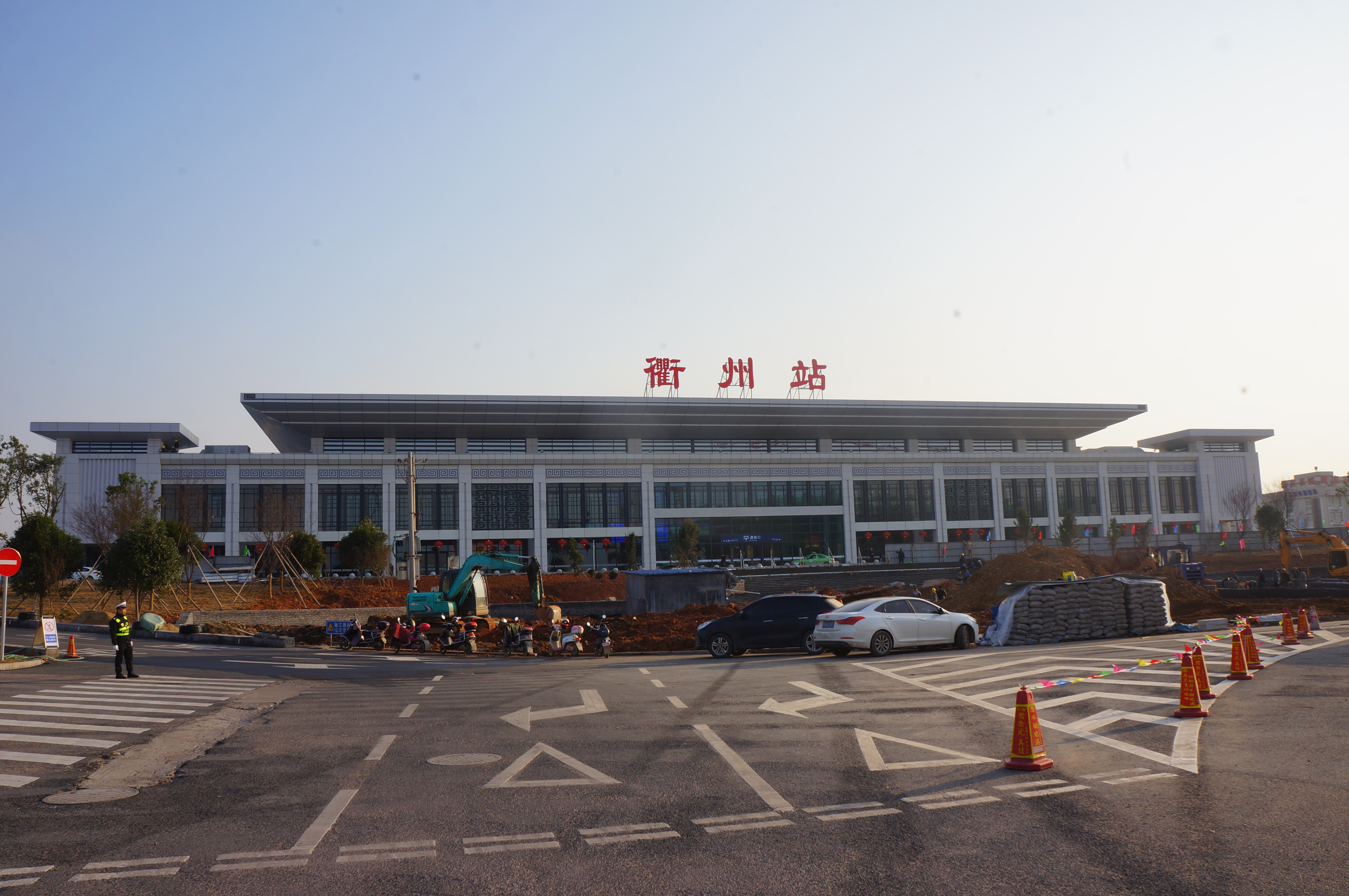 201701 Quzhou Railway Station, the square has not been completed